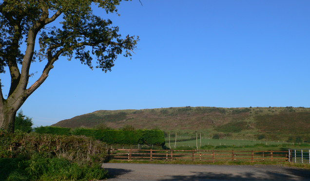 Old Oswestry. It is more than 2,000 years since this low hill was first fortified. Old Oswestry is described as 'the most hugely impressive Iron Age Hill Fort on the Welsh Borders'.